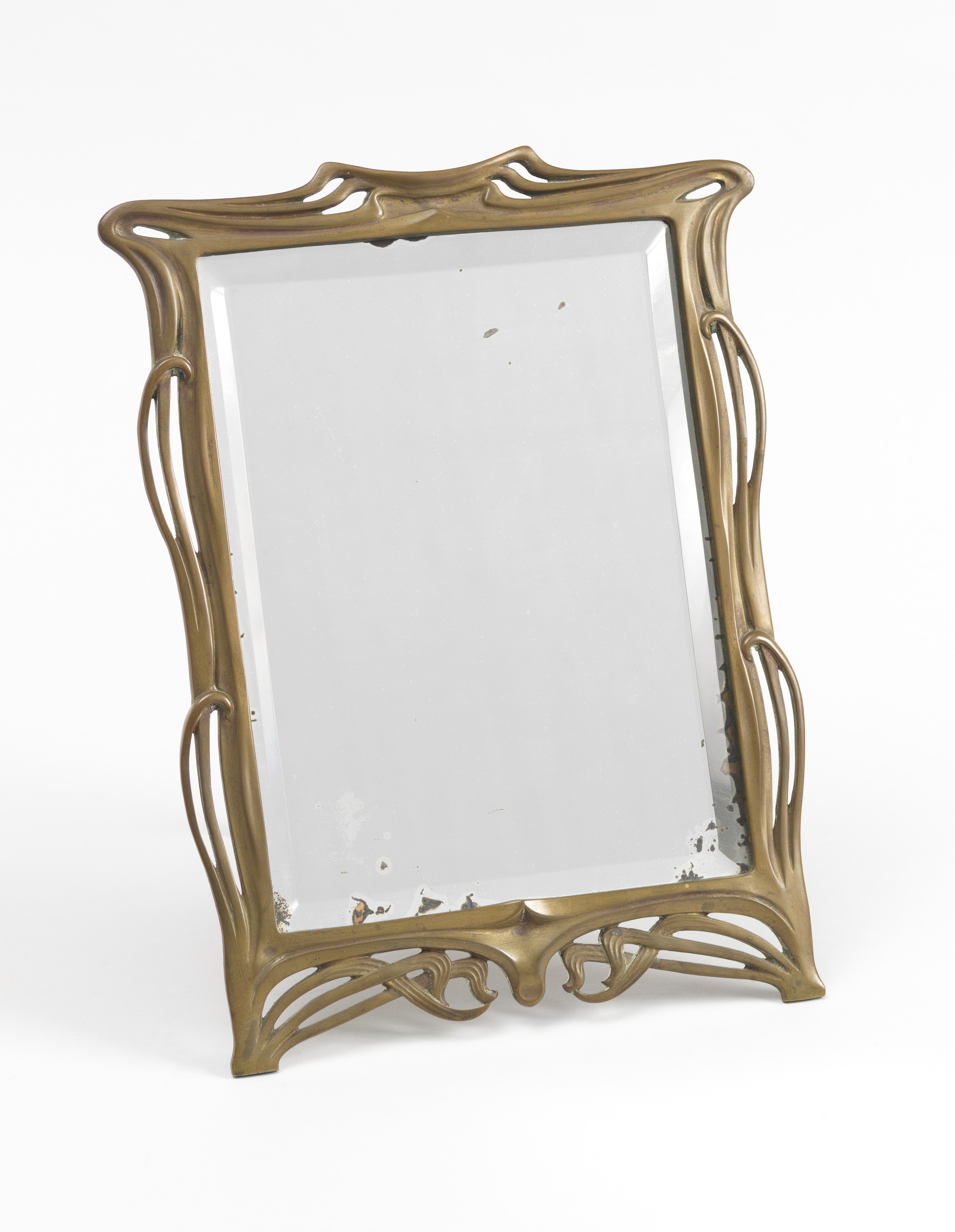 Rectangular mirror with shaped, open-work brass frame. Easle-type support on reverse.